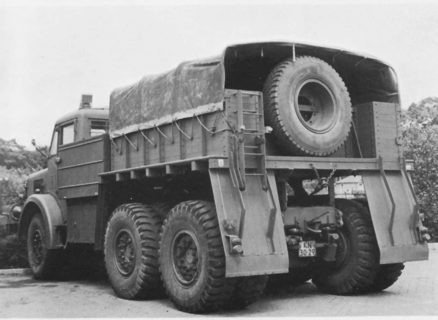 Thornycroft Mighty Antar Heavy transport tractor in use by Dutch Army.